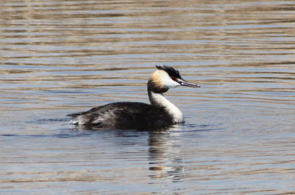 Great Crested Grebe Podiceps cristatus infuscatus at Marievale Nature Reserve, Gauteng, South Africa